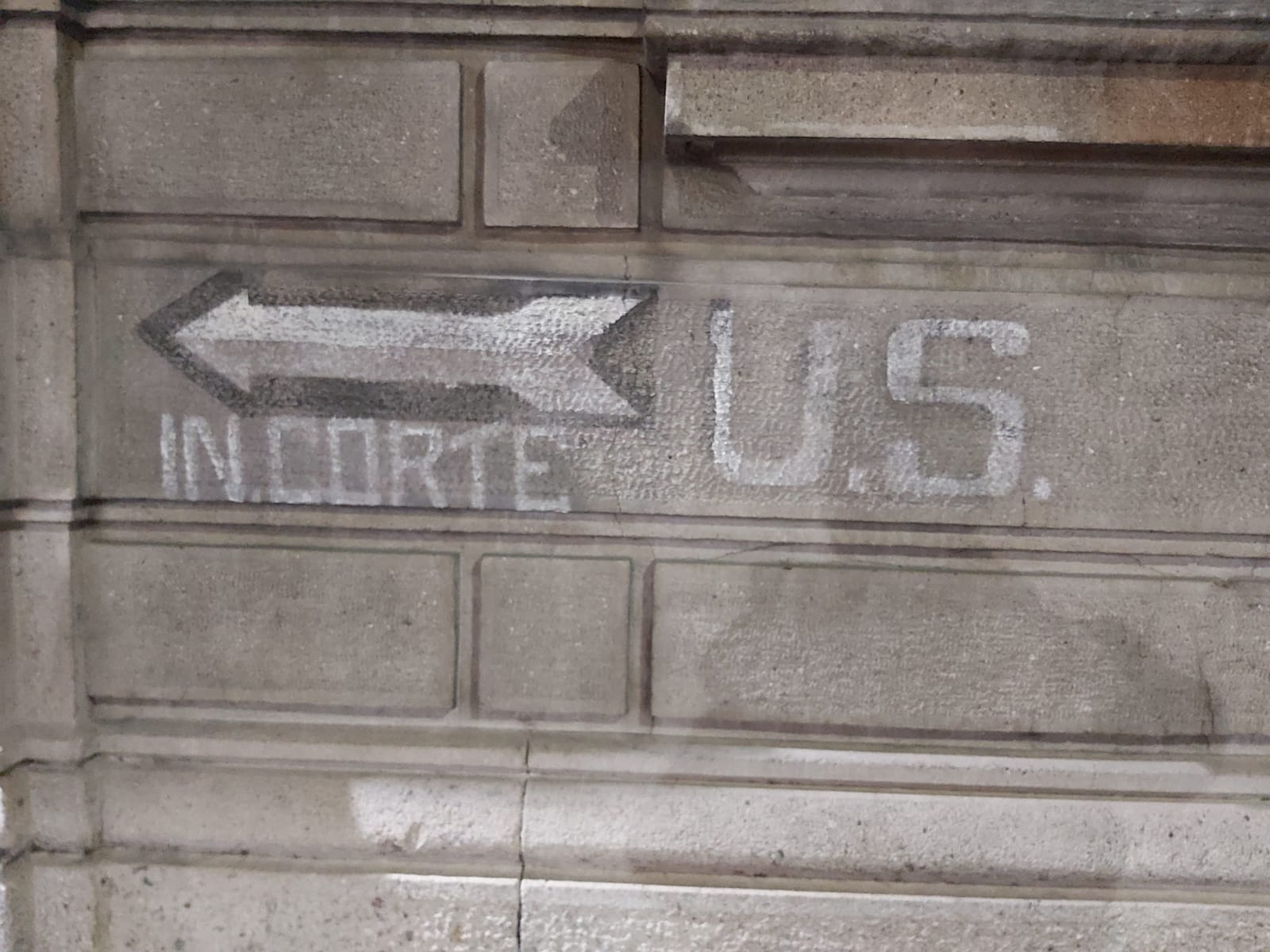 Military signal of the WW2 on a Milan's building